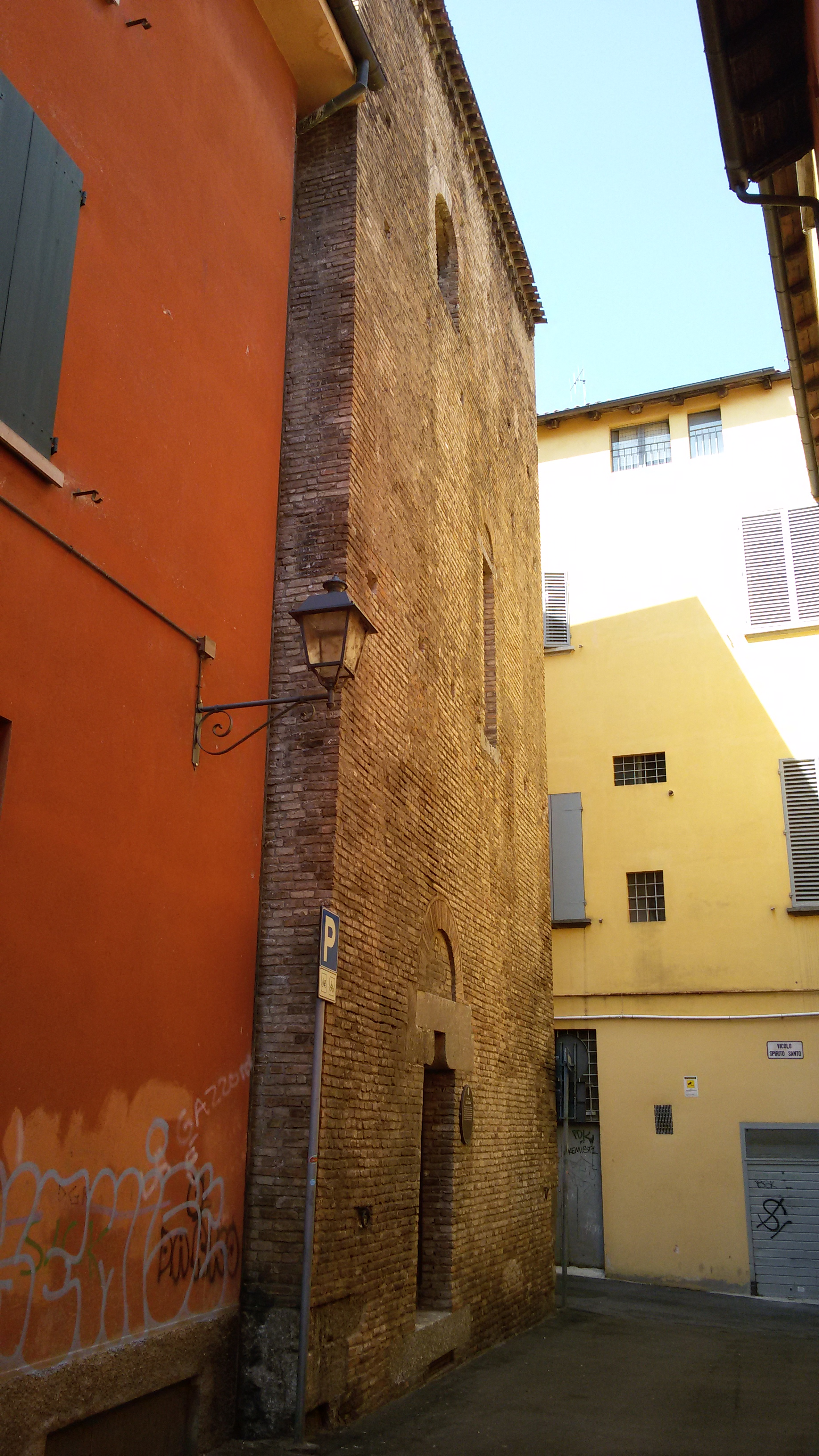 Image of Catalani's Tower